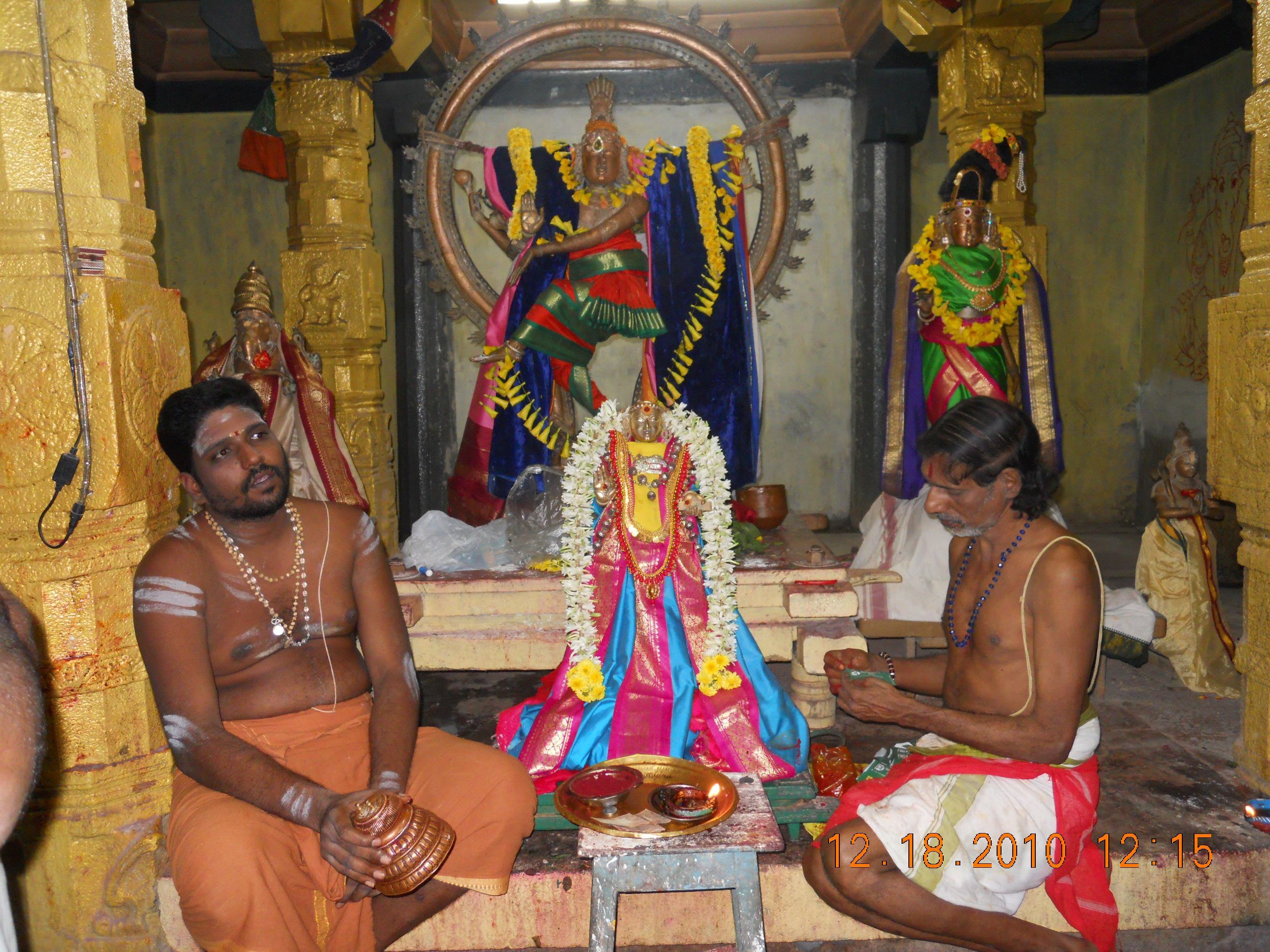 Natarajar Ekambareswarar_Temple_Kanchipuram Ekambareswarar_Temple